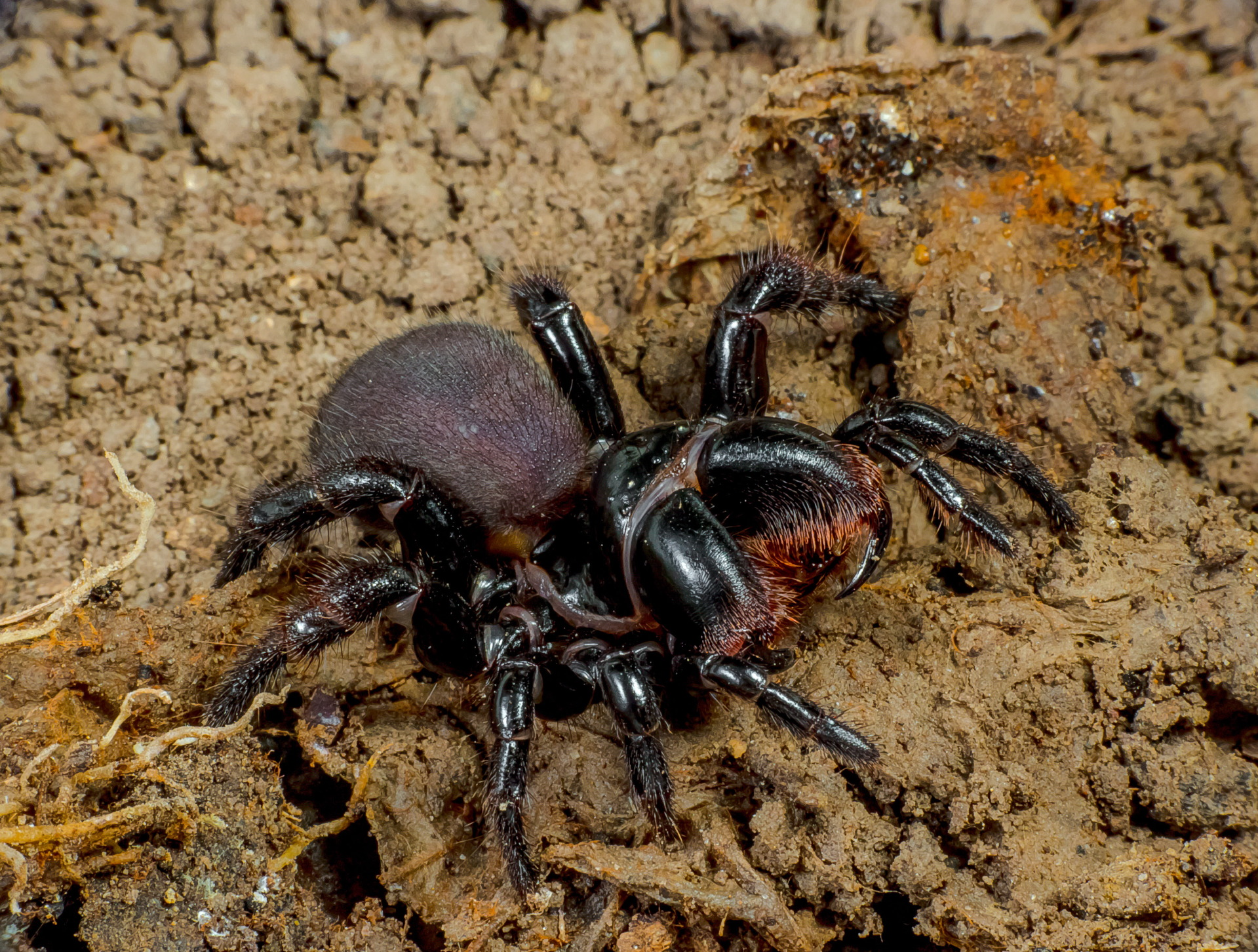 Mygalomorphae Actinopodidae Missulena bradleyi Paten Road, The Gap, Brisbane Collected: Raven & Whyte Photo: Robert Whyte